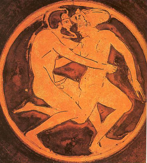 Courtesan and her client. Tondo of a red-figure cup, ca. 510-500 BC.